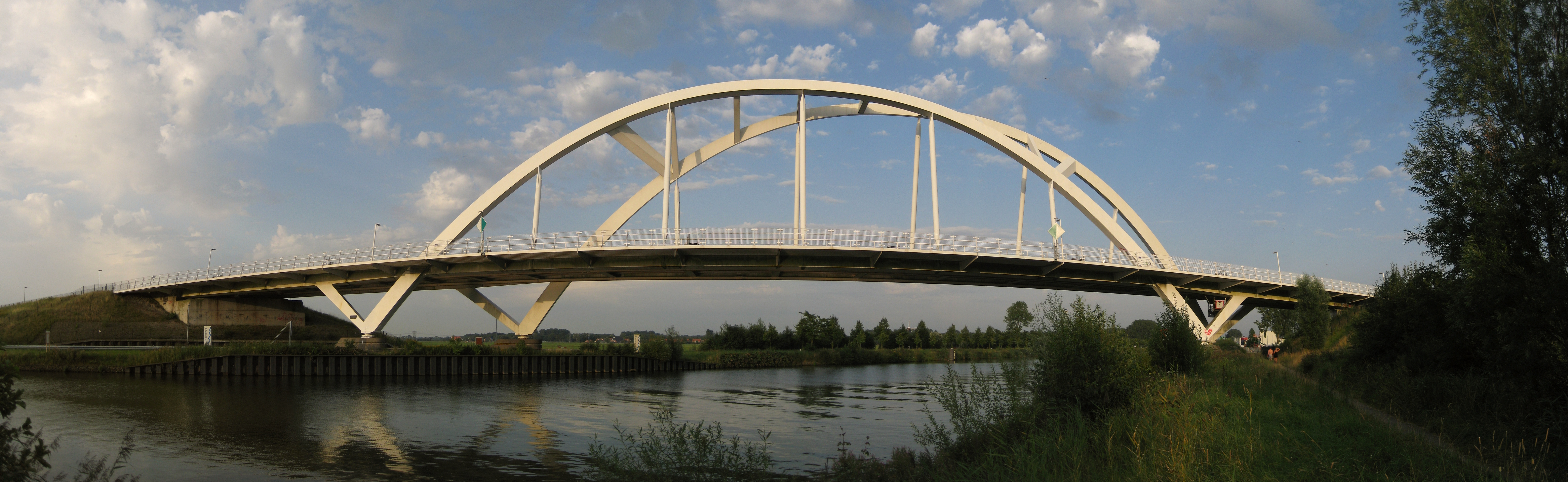 The Walfridus bridge (2003), a railway and bicycle bridge over the Van Starkenborghkanaal in the Dutch city of Groningen.